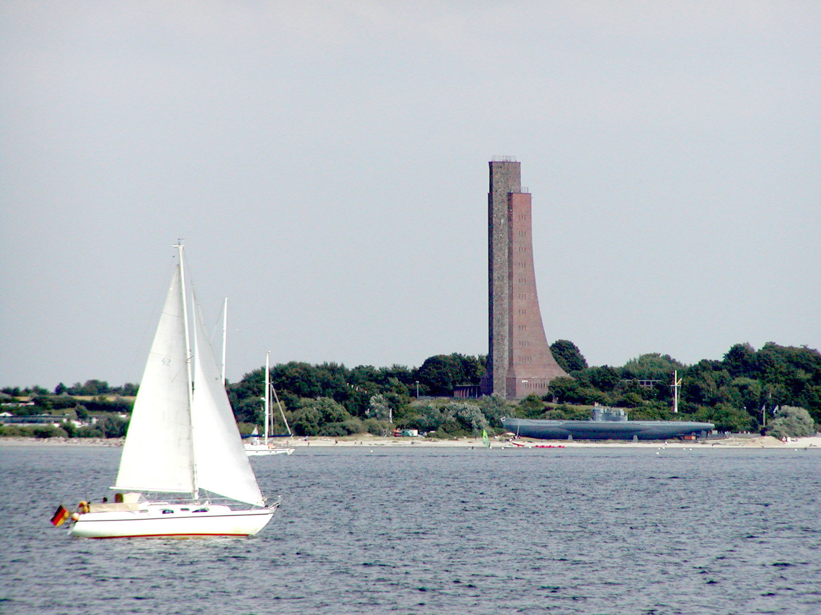 Laboe Naval Memorial with old submarine U995